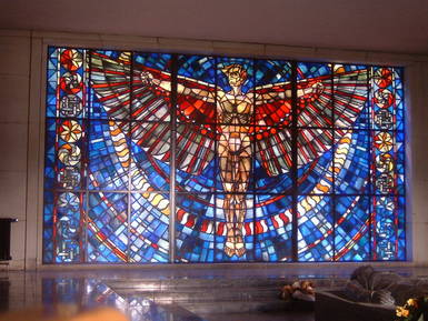 mosaic window in "Hall of Honor" at the Wasserkuppe